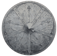 carolingian round shield